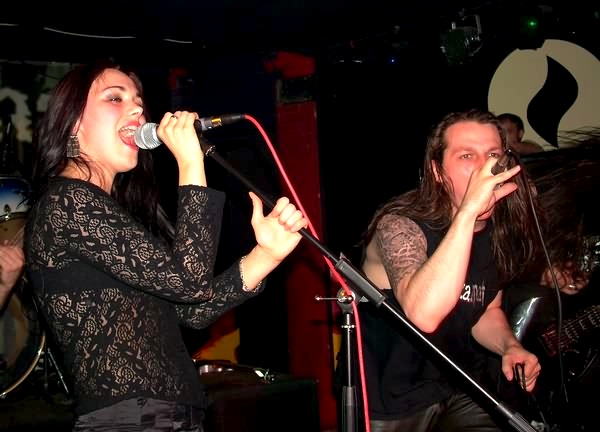 Nera and Flauros from Darzamat at Relax club in 2005.